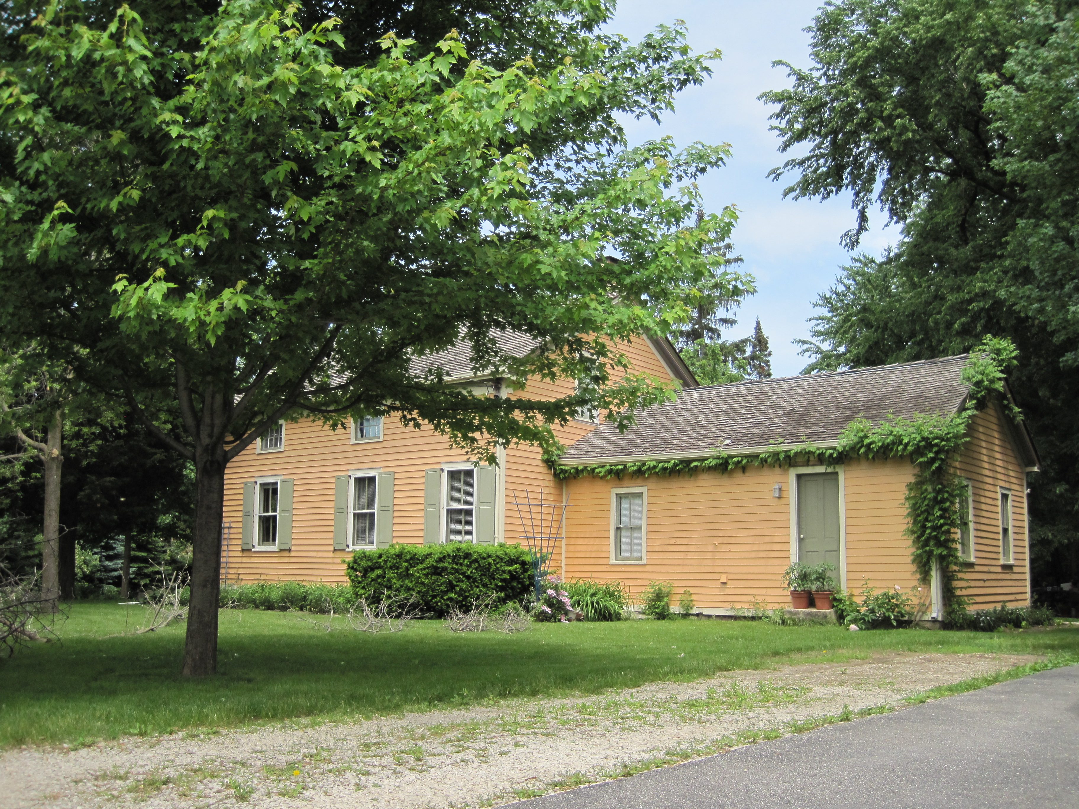 I (Teemu08 (talk)) took this image on June 2, 2011.